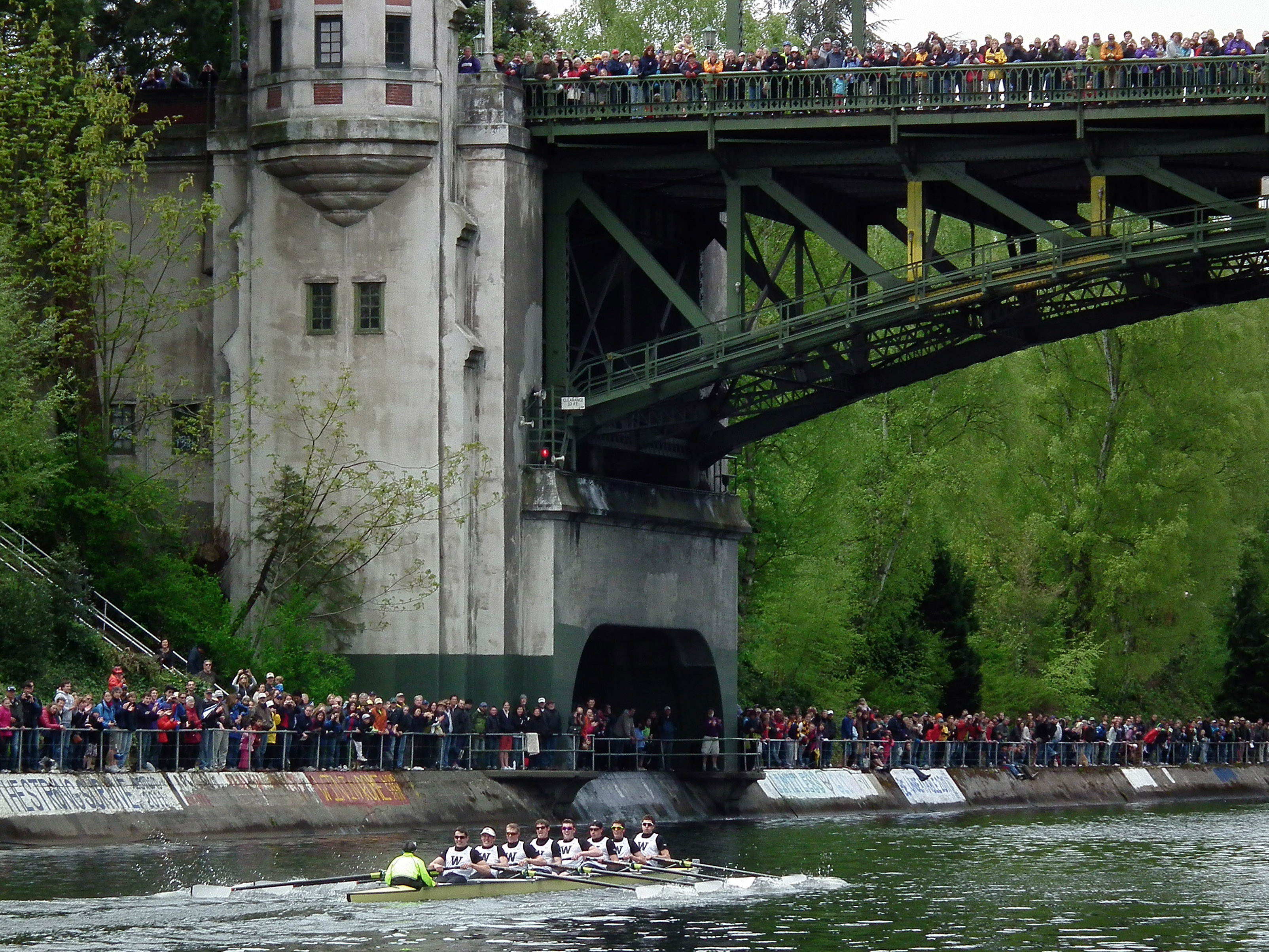 University of Washington men's varsity crew competes in the 25th Annual Windermere Cup during Opening Day of Boating Season, Seattle, Washington, USA. Montlake Bridge is in the background.